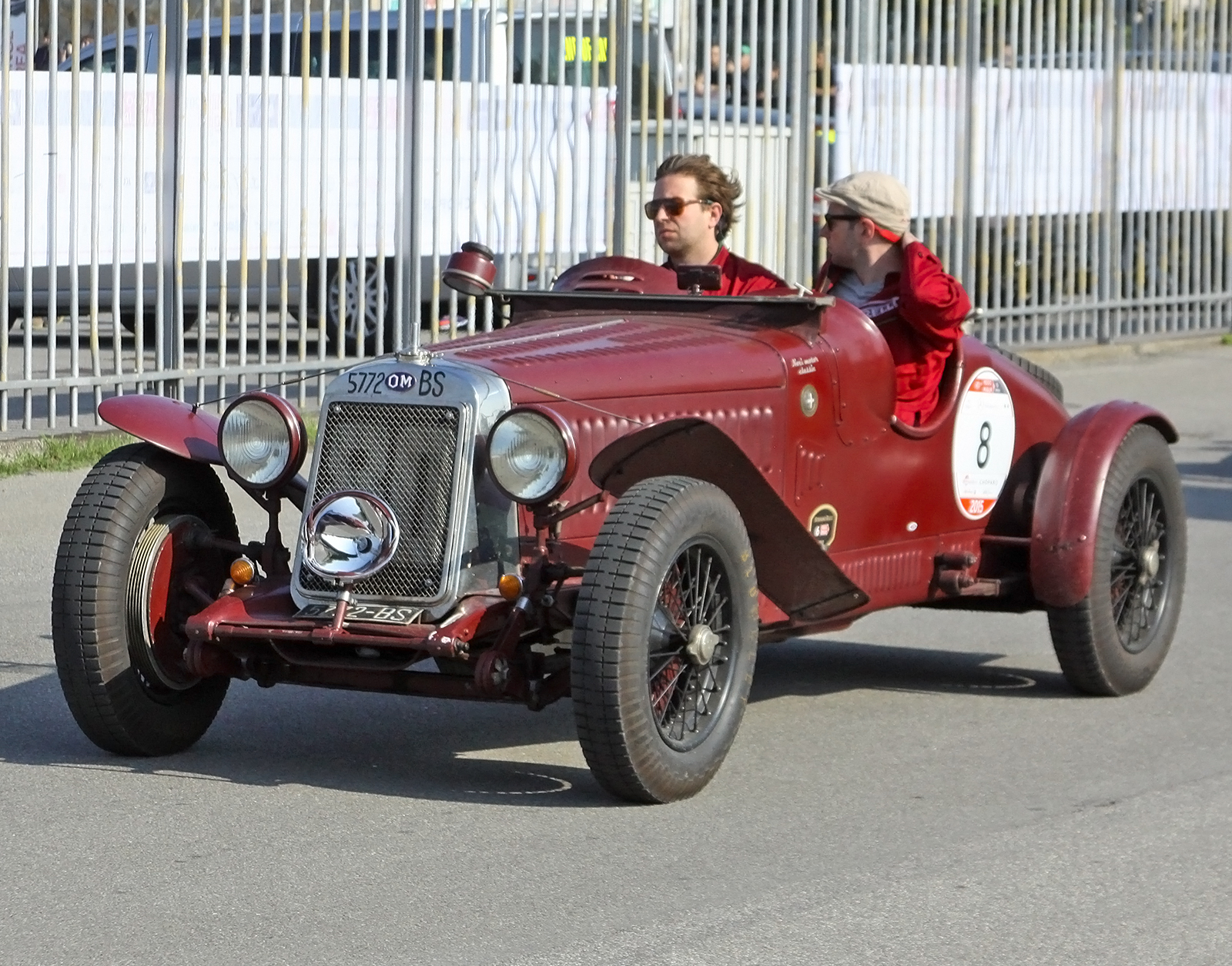 OM 665 Superba SS MM 2.2 Spider 1930 at the Mille Miglia 2015 reg. BS 5772, entered in the original Mille Miglia